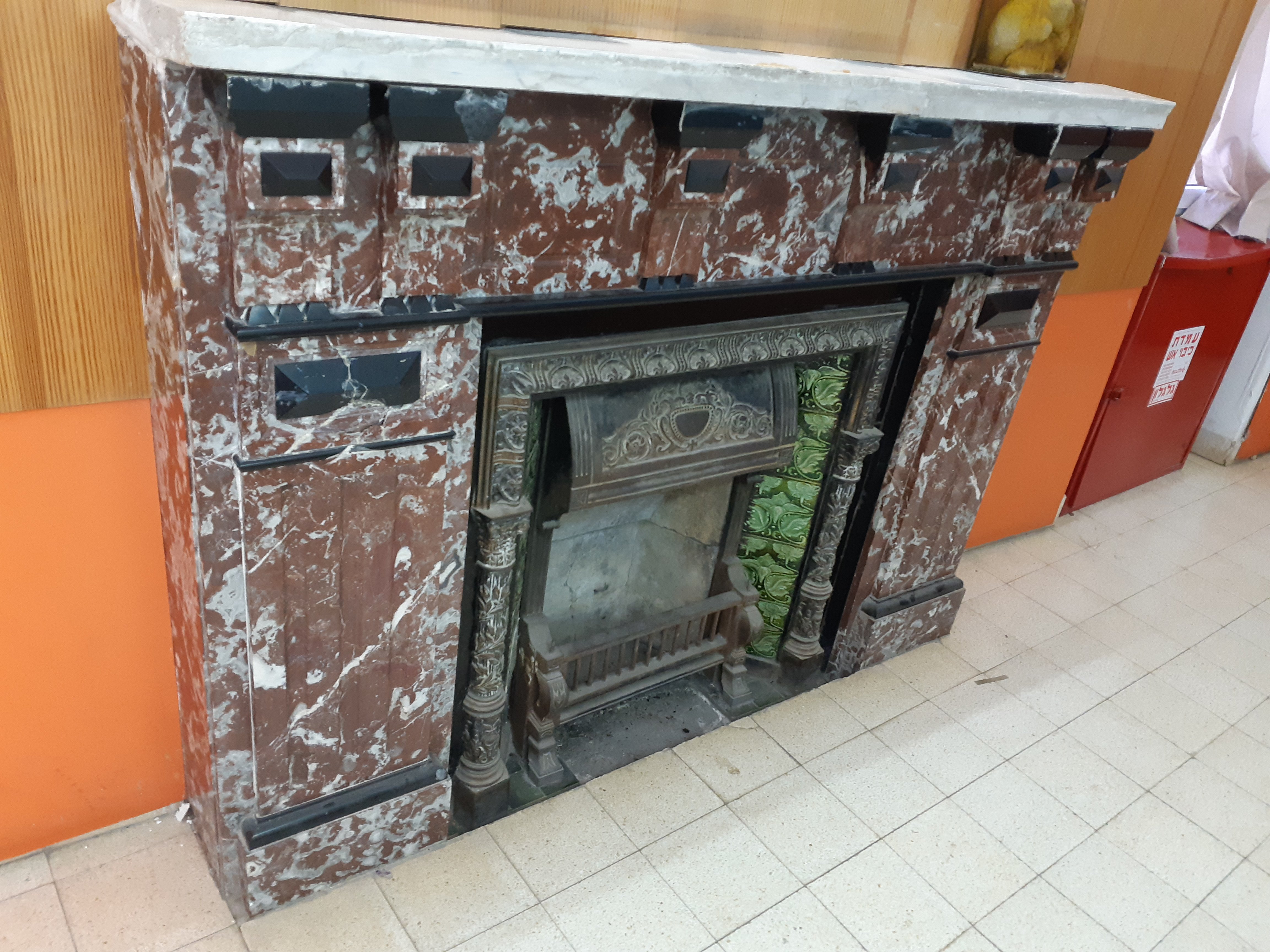 Nature History Museum in Jerusalem Deccan Villa Fireplace